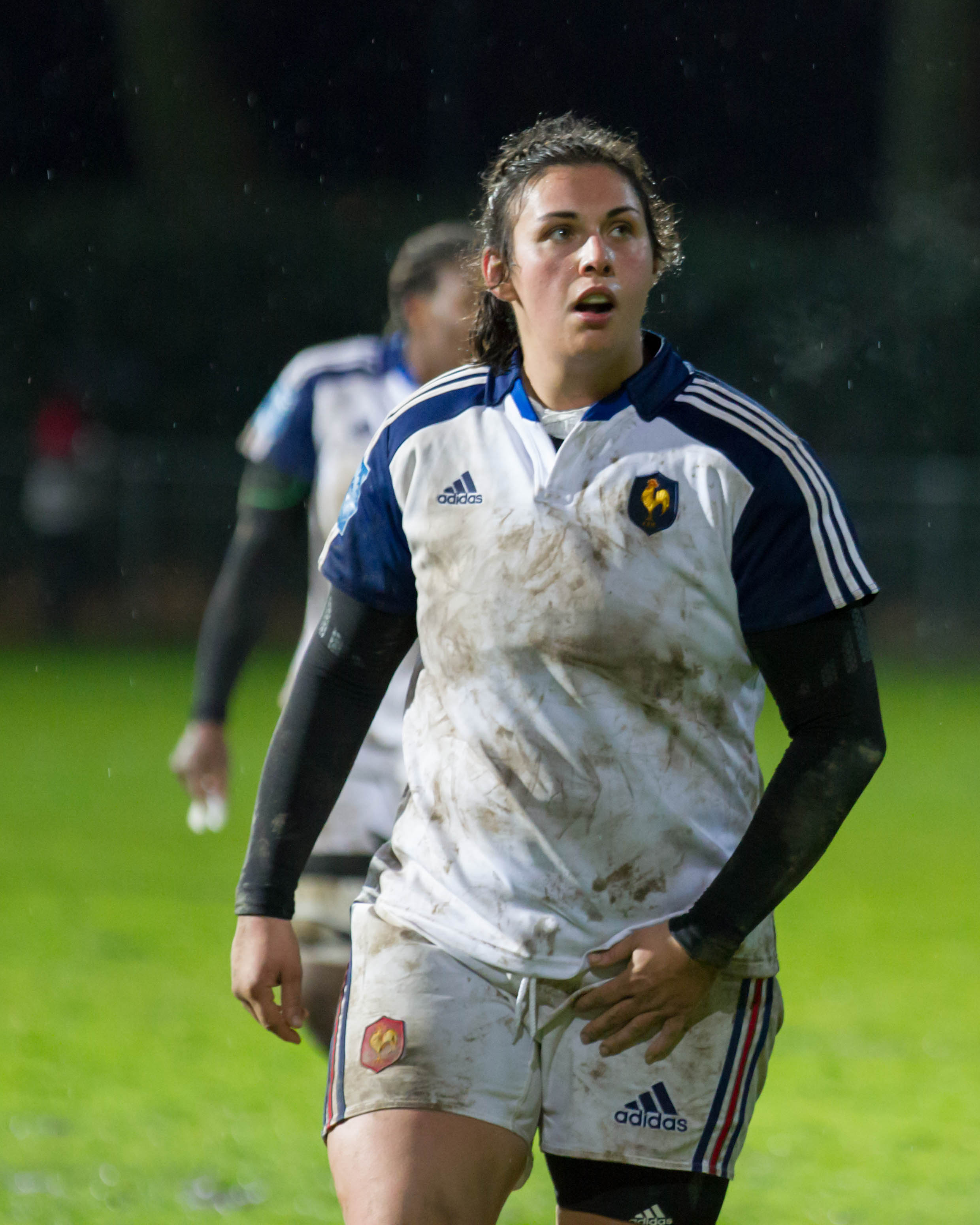 2014 Women's Six Nations Championship — 9 February 2014, Stade Ernest Argeles. Match between: France women's national rugby union team — Italy women's national rugby union team